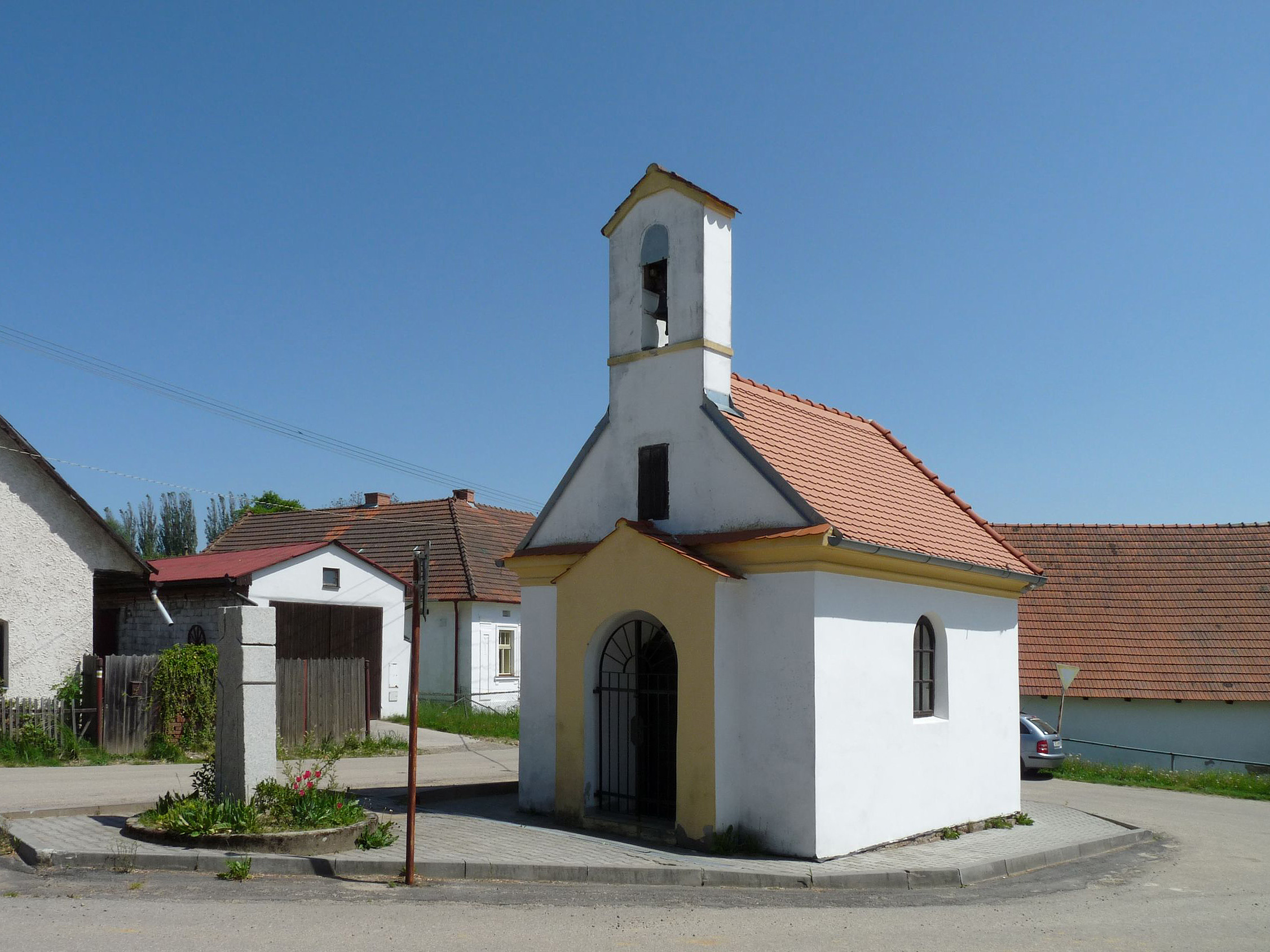 Chapel of the Assumption in the municipality of Chrbonín, Tábor District, South Bohemian Region, Czech Republic.